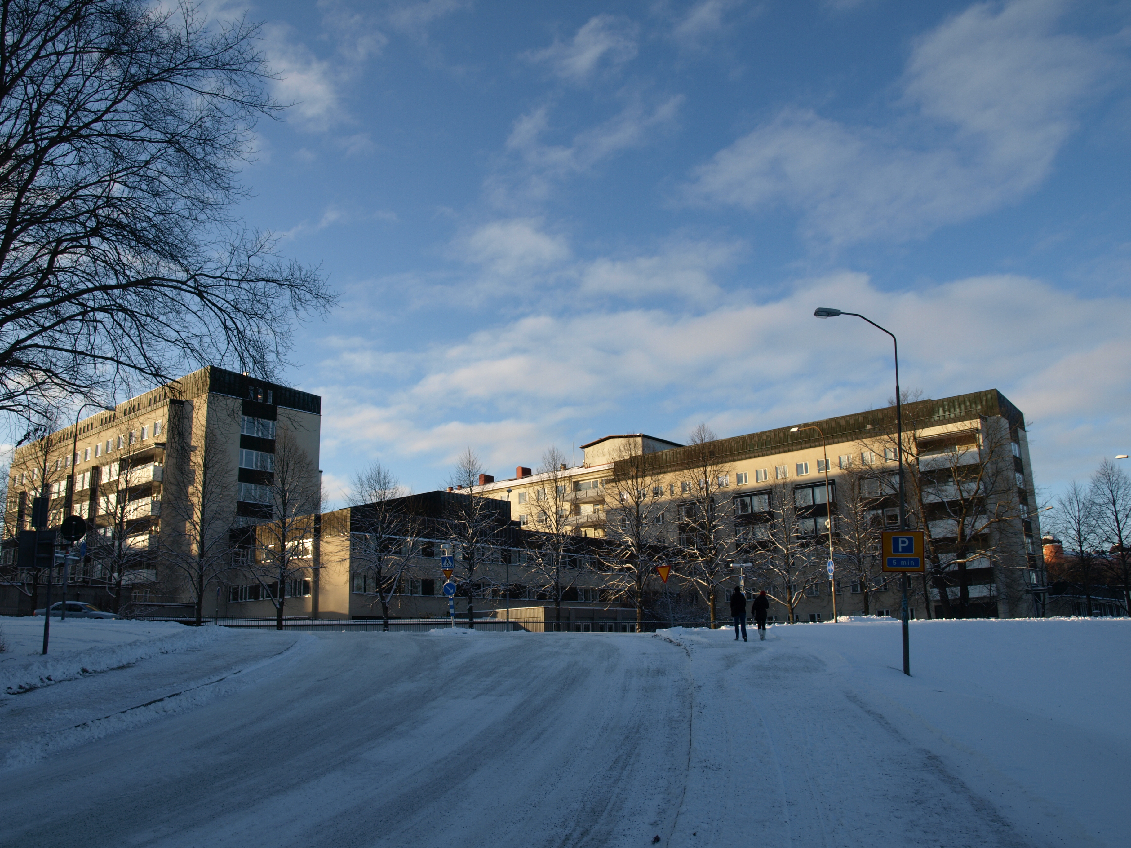 Uppsala University Hospital as seen from the sports field nearby.